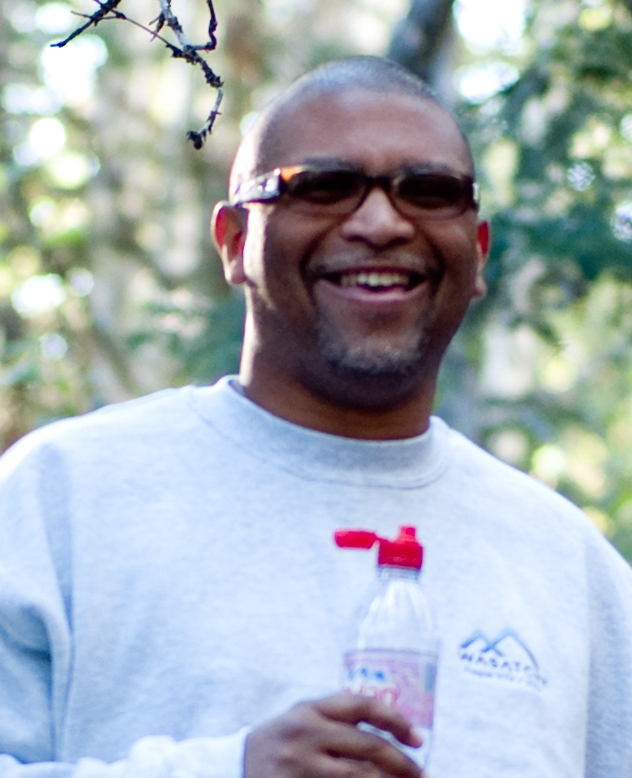 Reggie Hudlin